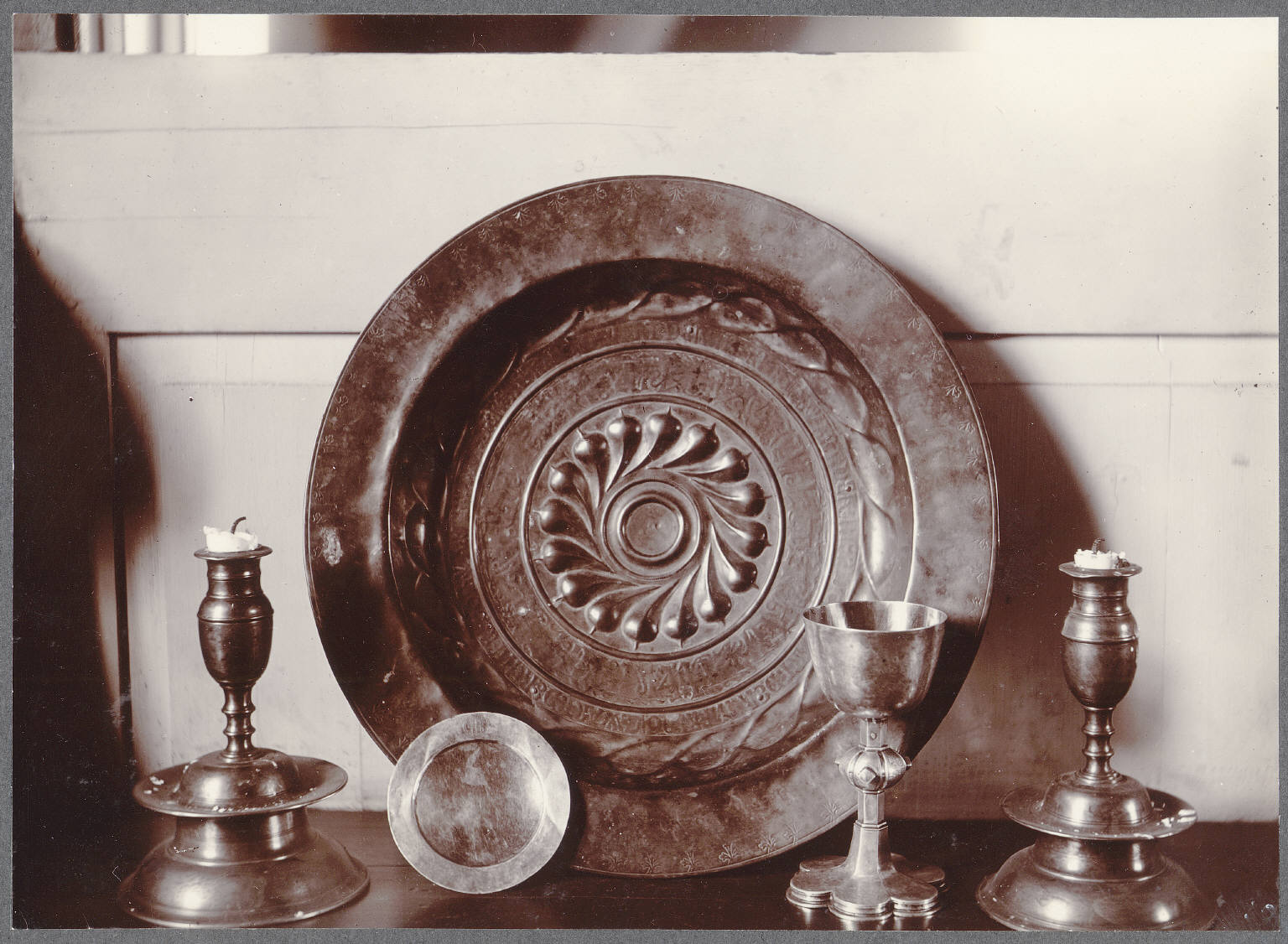 Collection: Icelandic and Faroese Photographs of Frederick W.W. Howell, Cornell University Library Title: Stórólfshvoll Church. - Bowl, etc. Date: ca. 1900 Place: Stórólfshvoll (Iceland : Farmstead) Medium: collodion print Repository: Fiske Icelandic Collection, Rare & Manuscript Collections, Cornell University Library Accession: 1923.3.25 URL: Persistent URI: There are no known U.S. copyright restrictions on this image. The digital file is owned by the Cornell Univeristy Library which is making it freely available with the request that, when possible, the Library be credited as its source. We had some help with the geocoding from Web Services by Yahoo!